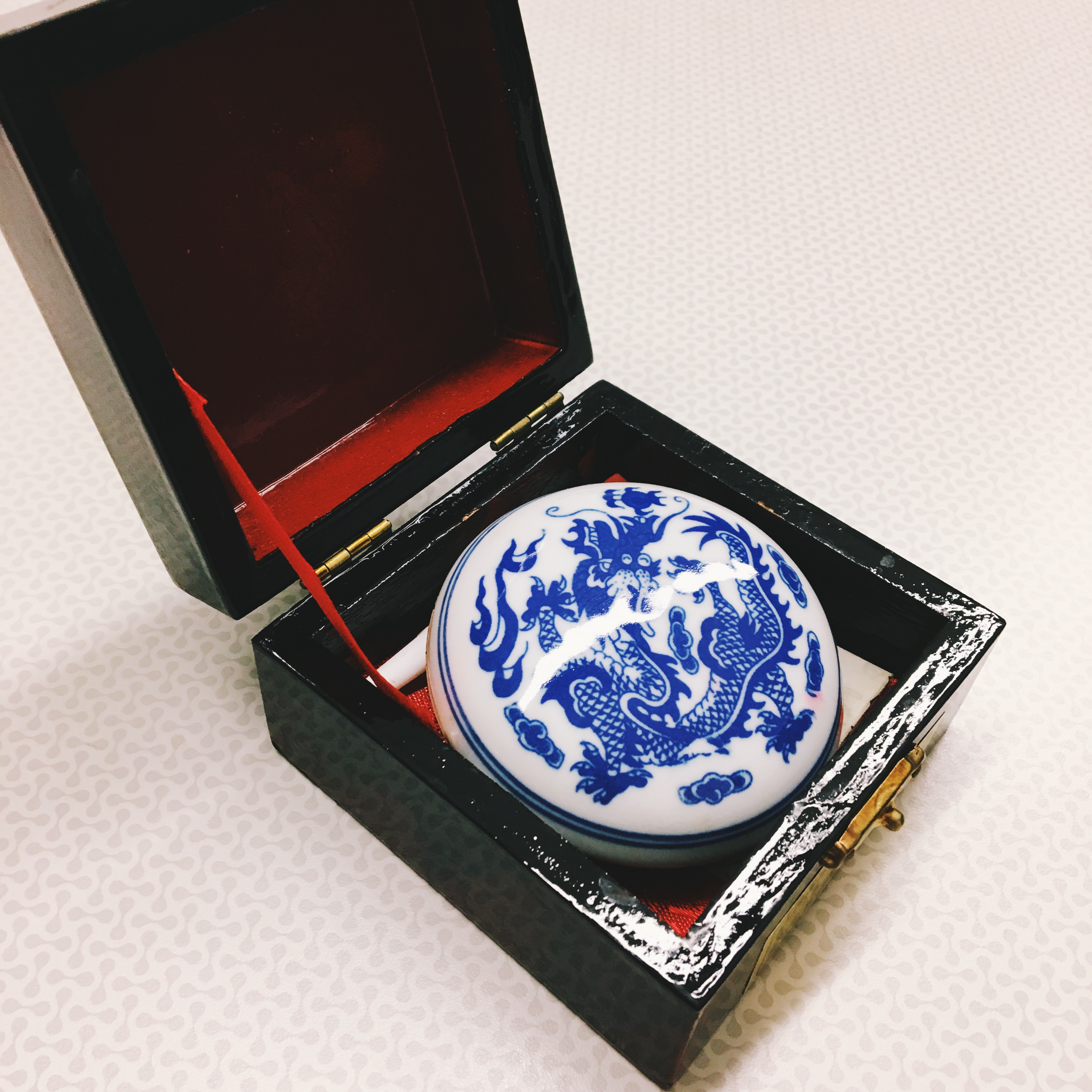 It is a model of Babao Seal Paste.